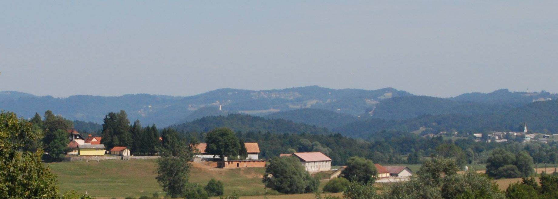 The Dob Prison in Slovenska Vas, Municipality of Šentrupert, Slovenia (half-open department). Picture taken from St. Helena's Church in Mirna.